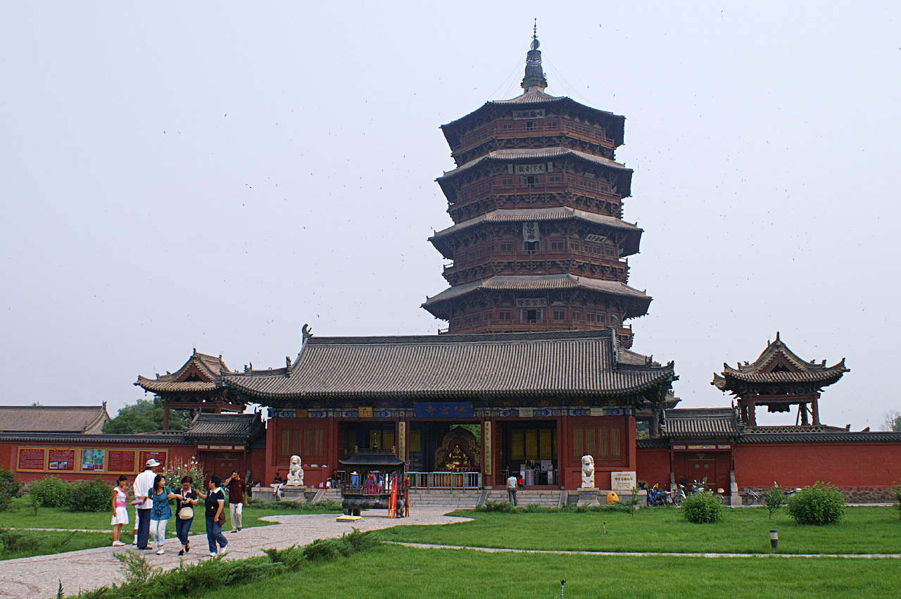 The Wooden Tower Of Ying county 中國山西應縣木塔